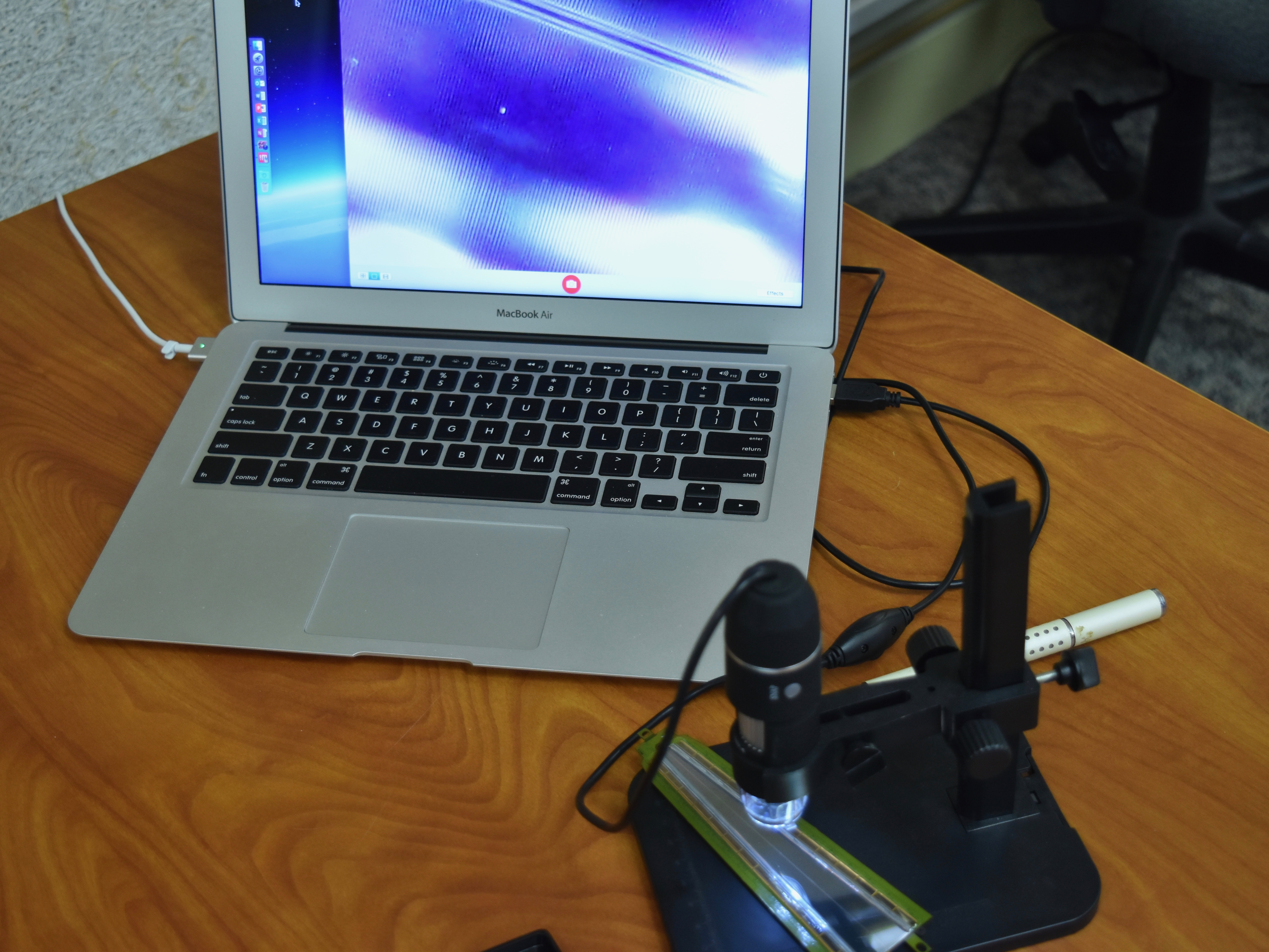 A Forward Silicon Vertex Detector (FVTX) long wedge sensor on a microscope. Noting of the 1,664 silicon strips at 75 micron spacing. The sensor is part of the FVTX used in the PHENIX detector.